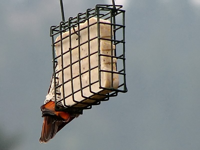 Someday I'll catch a good shot of the flickers in my yard. This isn't it, but I think it's a fun shot. (Red-shafted northern flicker.) (Oregon, USA)